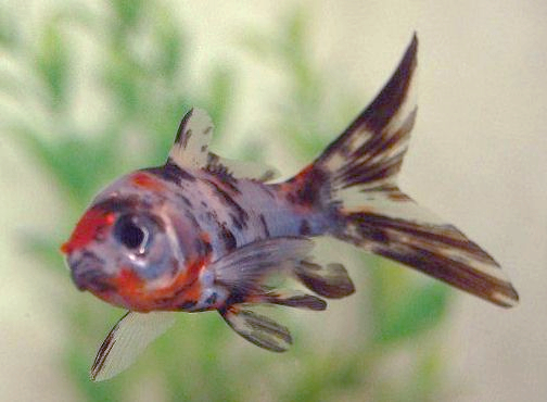 Clear picture of a Shubunkin.